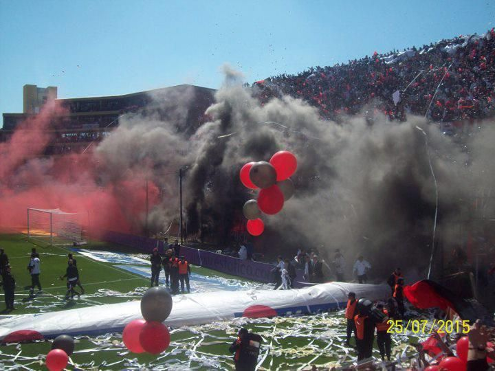 La Hinchada de Colon De Santa Fe una de las más grandes de la Argentina